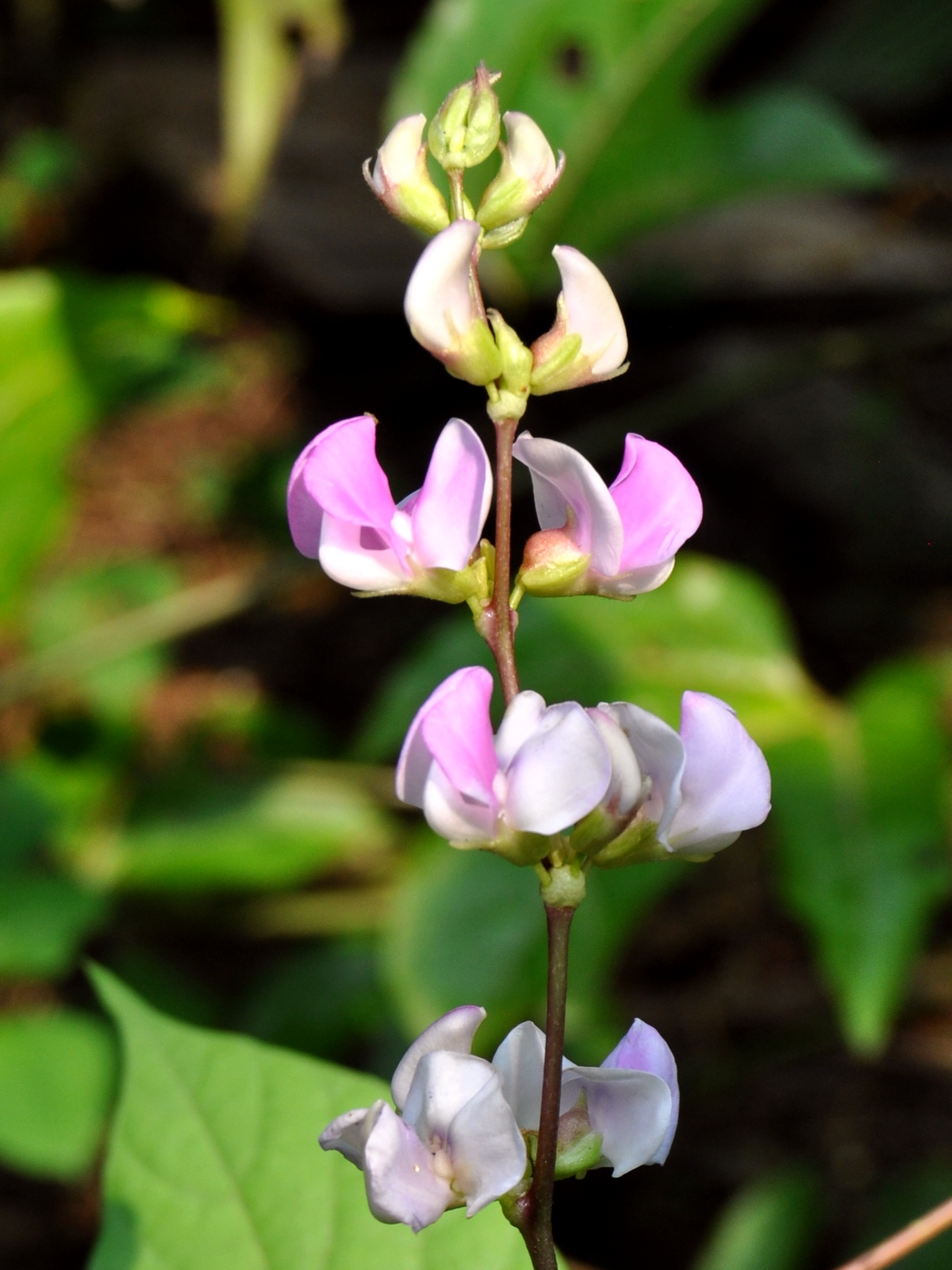 Hyacinth bean, Lablab purpureus from Darmaga, Bogor, West Java, Indonesia. Leaves and inflorescence.